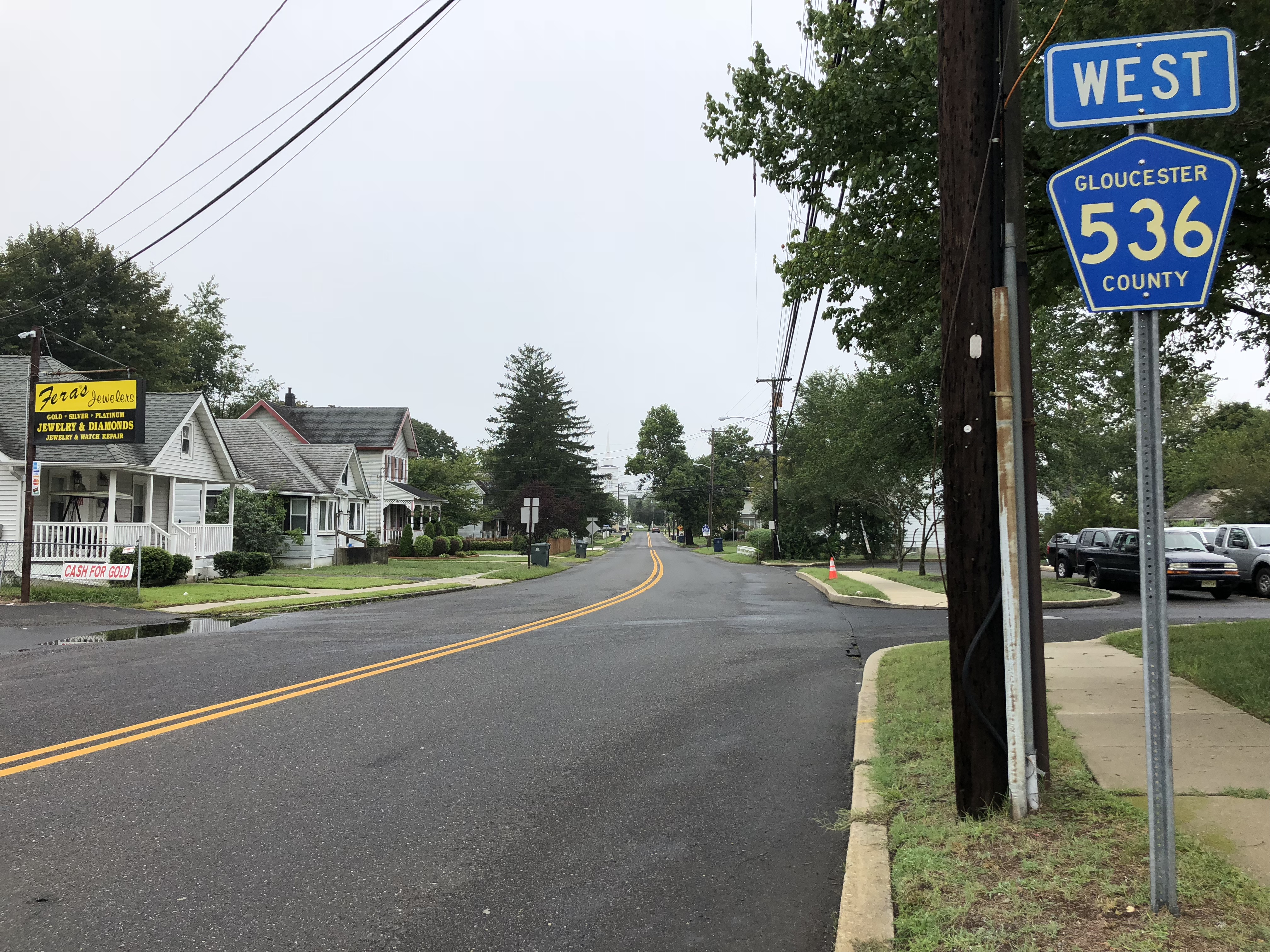 View west along Gloucester County Route 536 (Poplar Street) at U.S. Route 322 (Black Horse Pike) in Monroe Township, Gloucester County, New Jersey